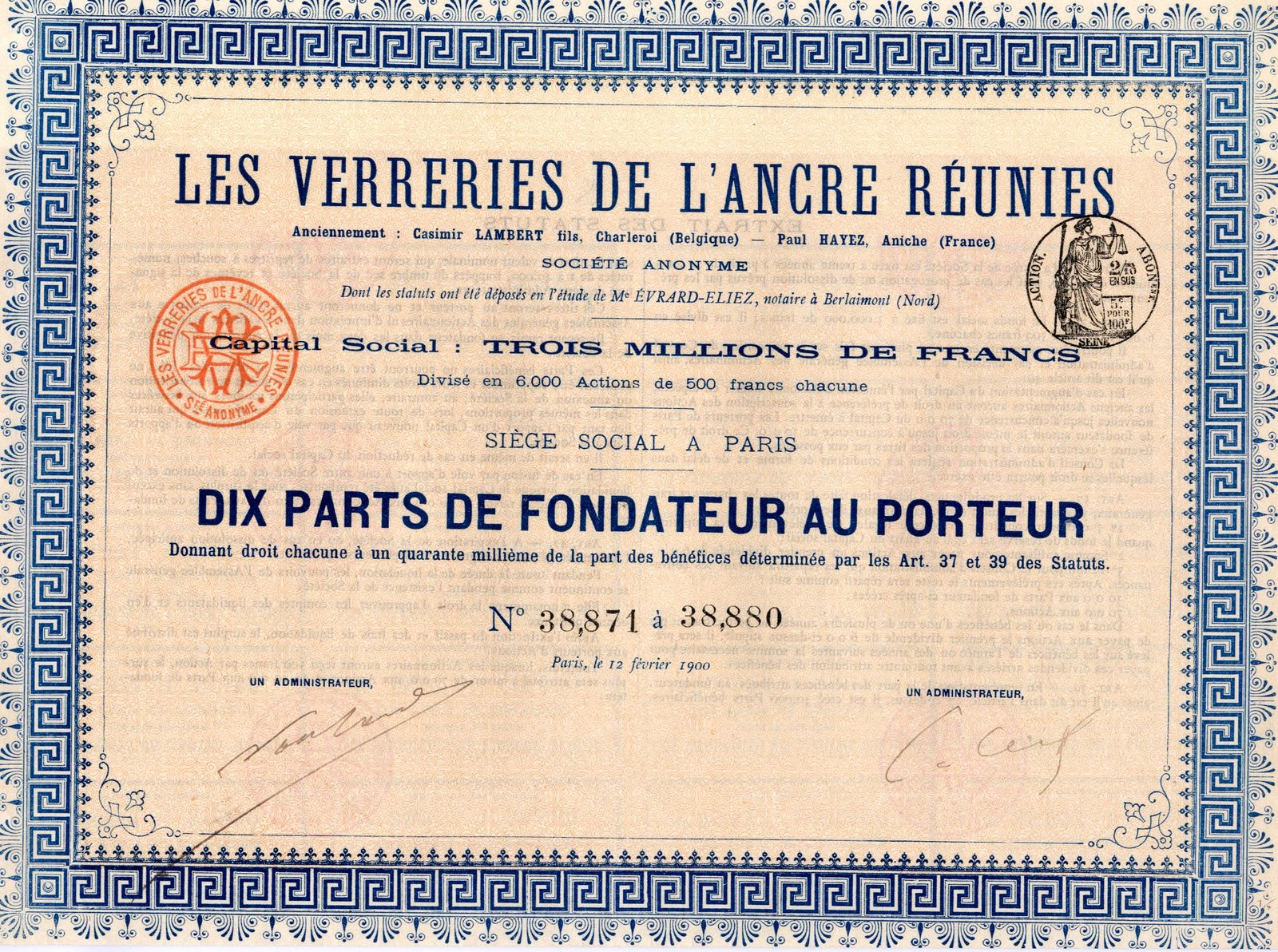 Les verreries de l'Ancre réunies